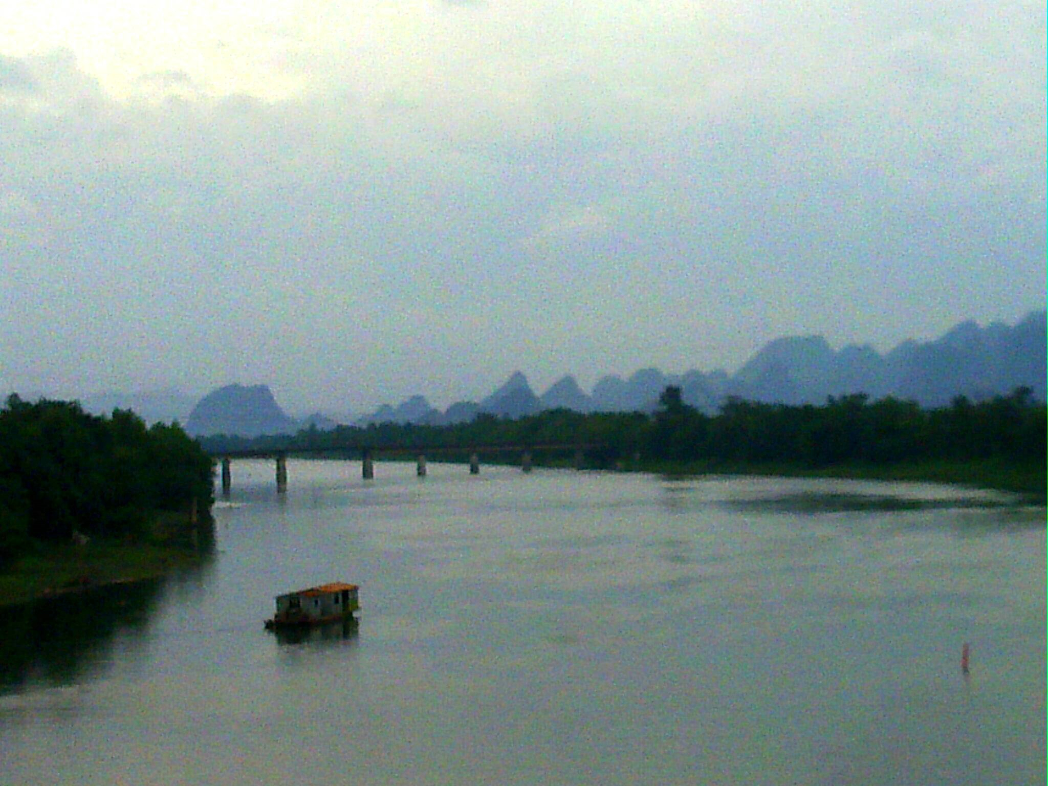 The Lijiang River Guihai railway railway bridge